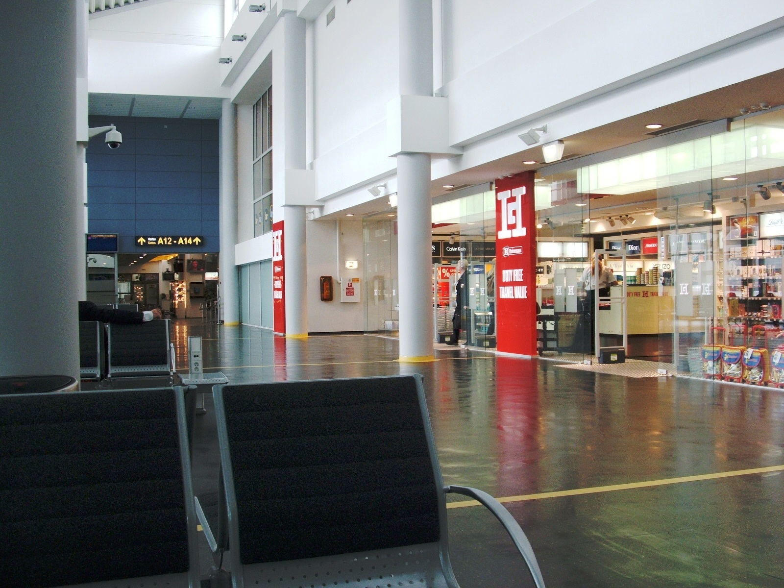 Duty free shop at Vilnius airport